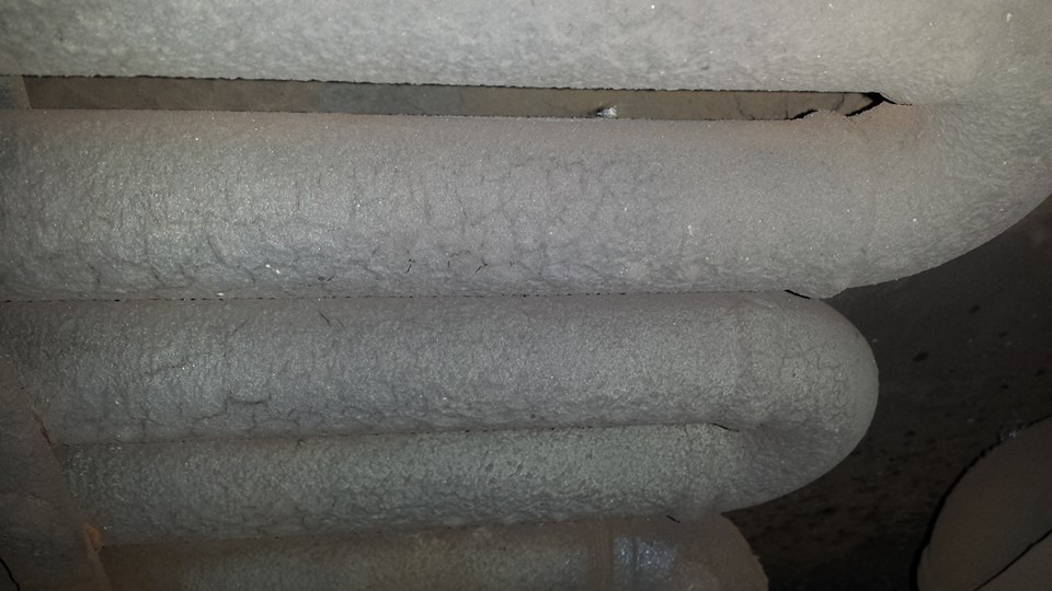 Compressed air brake pipes underneath Spoornet Class 18E no. 18-089